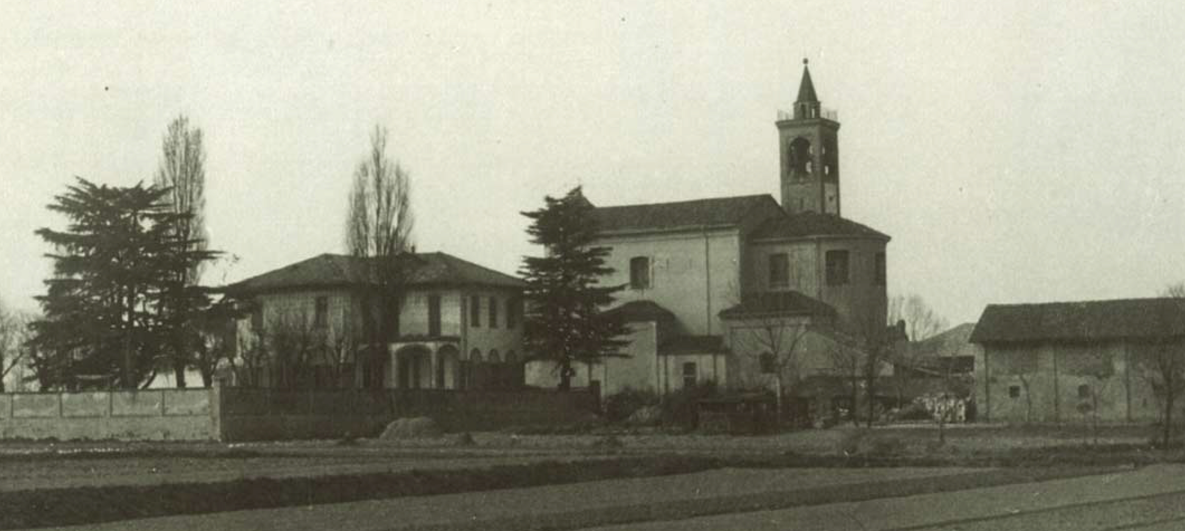 Picture of San Giovanni in Trenno church sorrounded by green fields